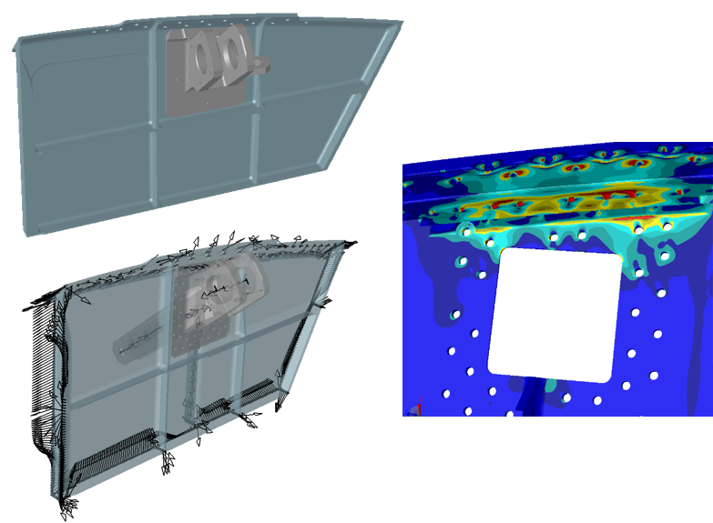 StressCheck multi-body contact detail stress analysis using global PATRAN loads